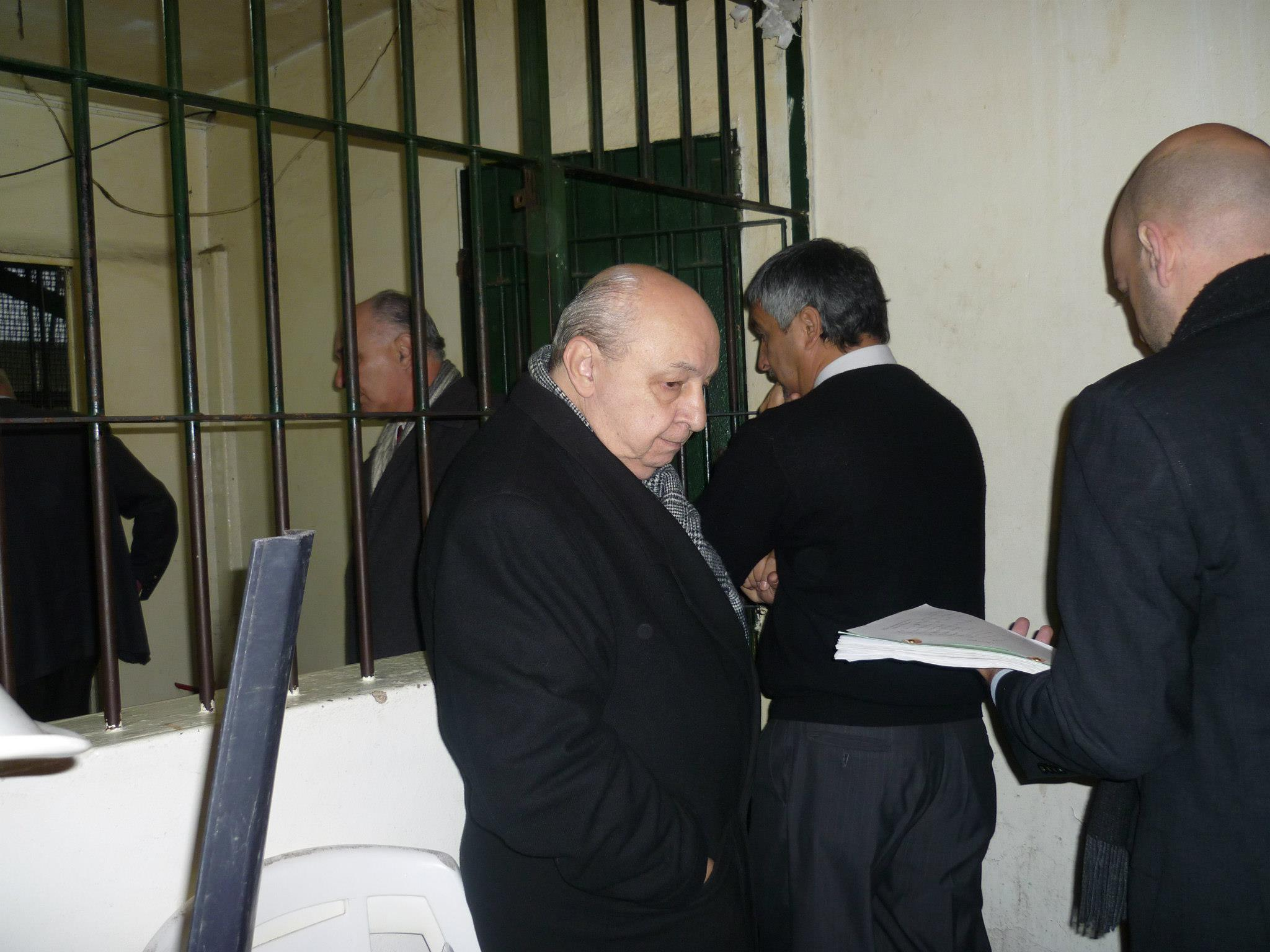 Traveled by Center Clandestino "Hell" 3